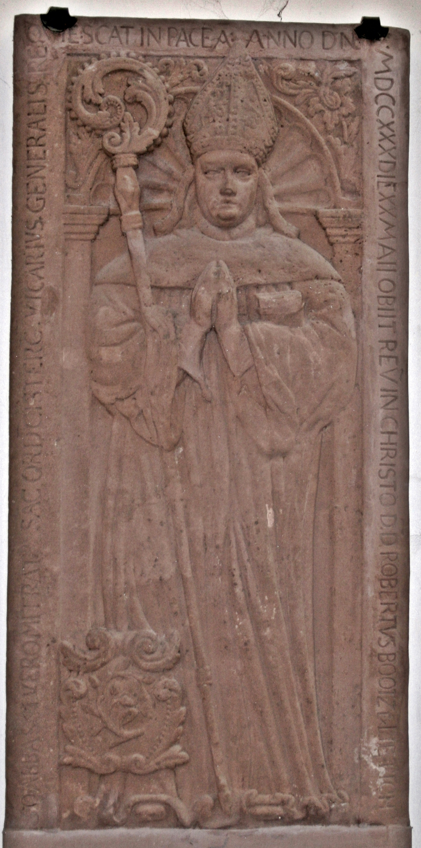 Tomb of Robert Bootz (1650–1730) in the church of the abbey Himmerod